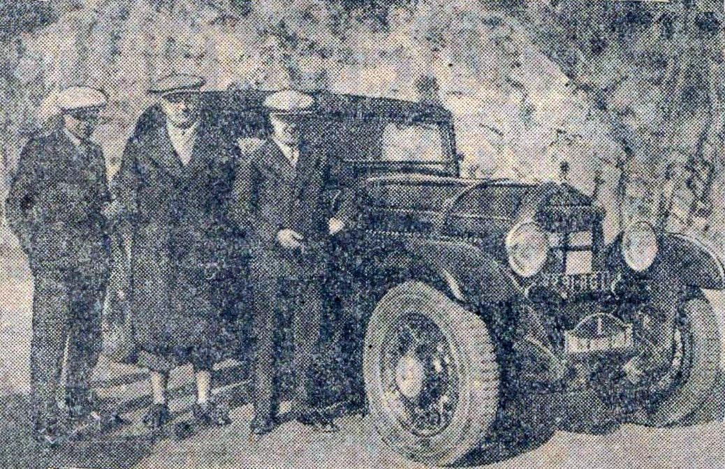 Entry #1 in the 1933 Rallye Monte Carlo was a Hotchkiss AM 80 S 3,485 ccm driven by Maurice Vasselle (standing in the centre). He had started in Tallinn and won the race overall this year[1].